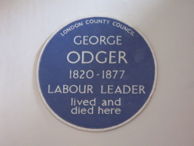 St. Giles-in-the-Fields Church, St. Giles High Street, WC2 - blue LCC plaque re George Odger